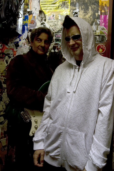 The Sandman and Flacco backstage at A Very Big Gig (benefit for Wayne Goodwin) The Basement, Sydney Australia August 2008